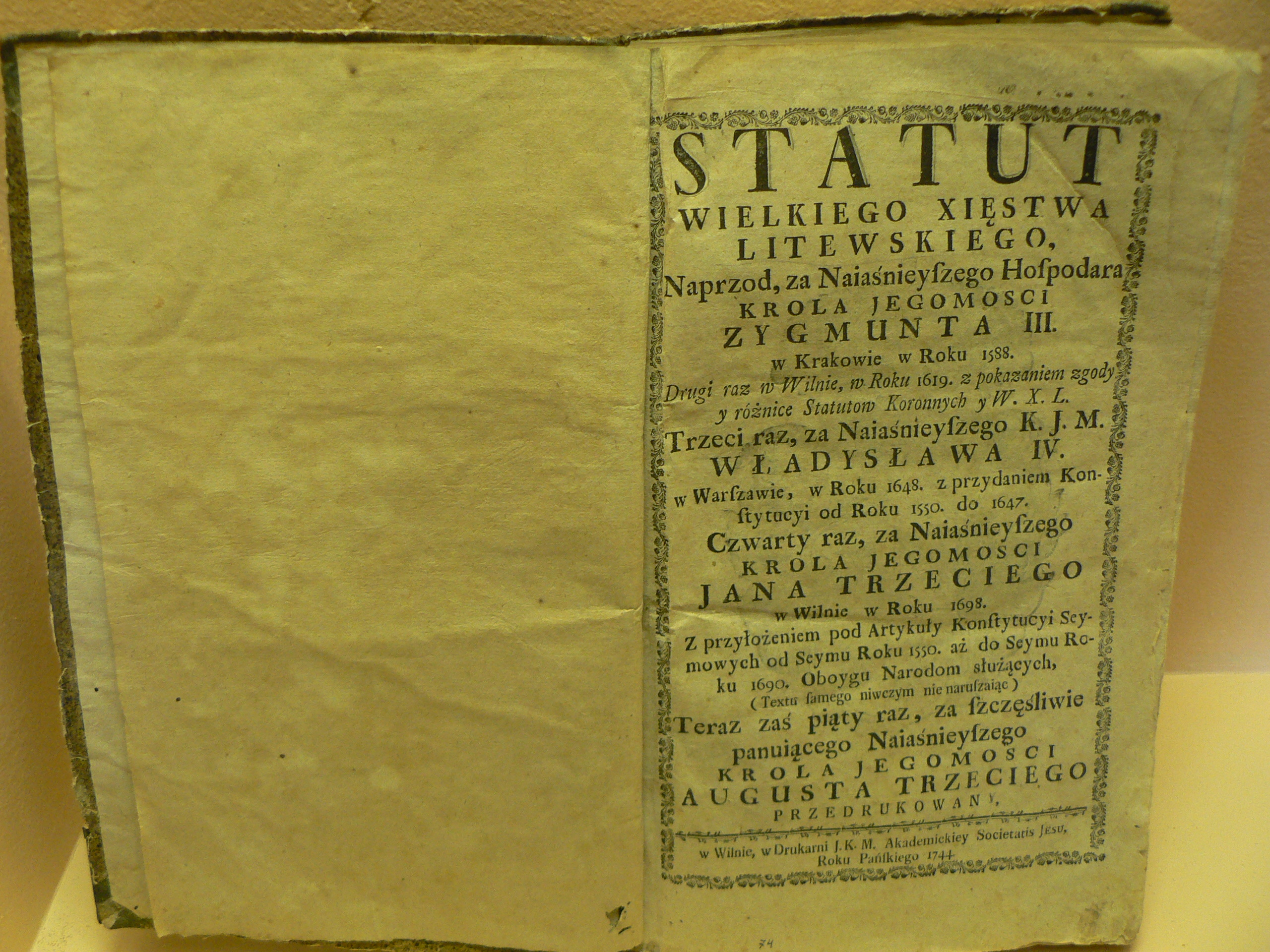 The Statute of Grand Duchy of Lithuania. 1588. Translation into Polish.